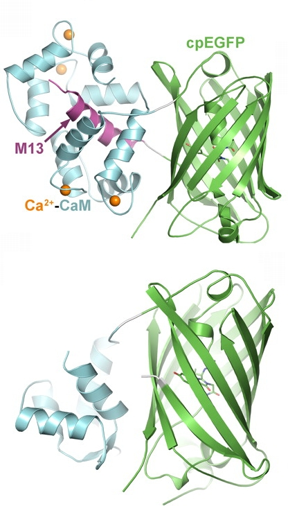 Crystal structure of Gcamp in calcium bound state and calcium free state